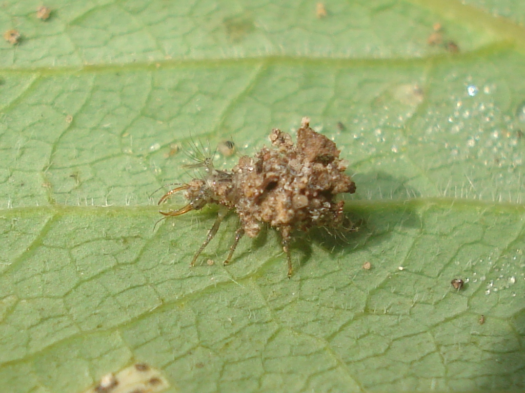 Chrysopidae